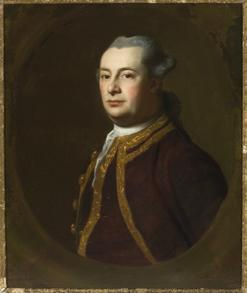 Portrait of Nova Scotia official Michael Francklin